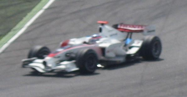 Takuma Sato driving for Super Aguri F1 at the 2008 Spanish Grand Prix.